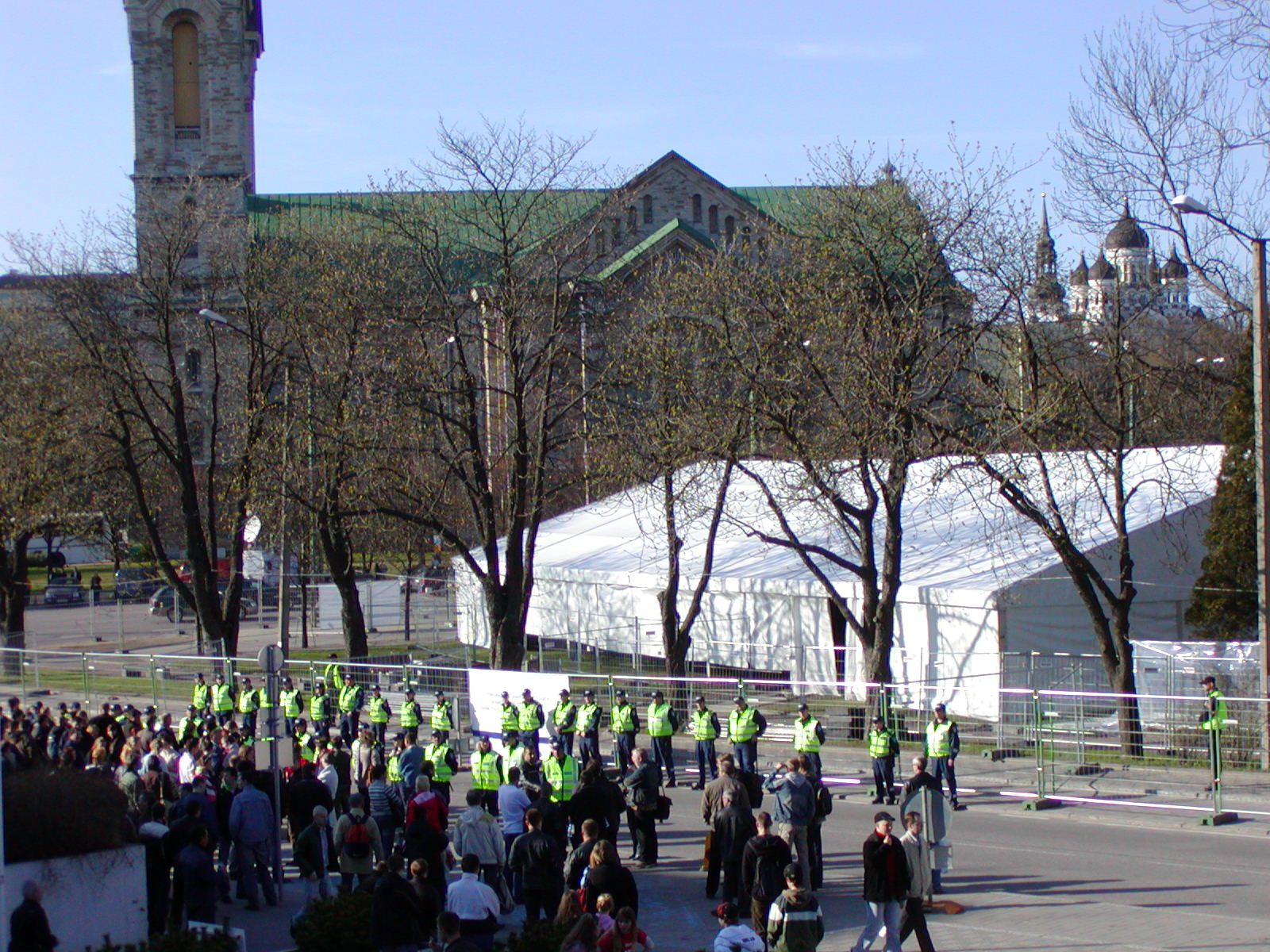 Protest against the demolition of the Bronze Soldier of Tallinn, a World War II memoral commemorating the libration of Estonia from Nazism by Soviet forces.